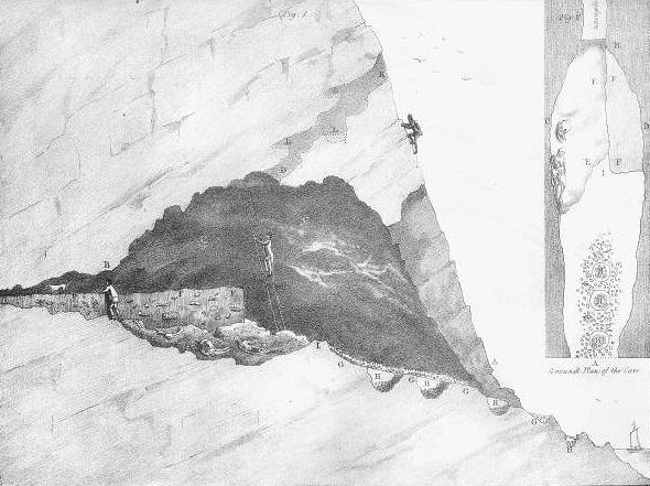 Goat's Hole, Wales - The "Red Lady of Paviland" was excavated here